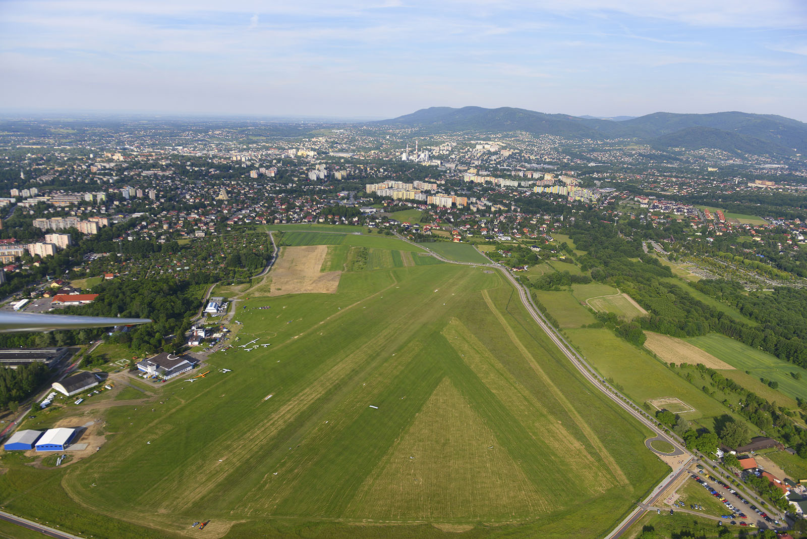 Aerial photography of airfield in Bielsko-Biala (Aleksandrowice), Poland